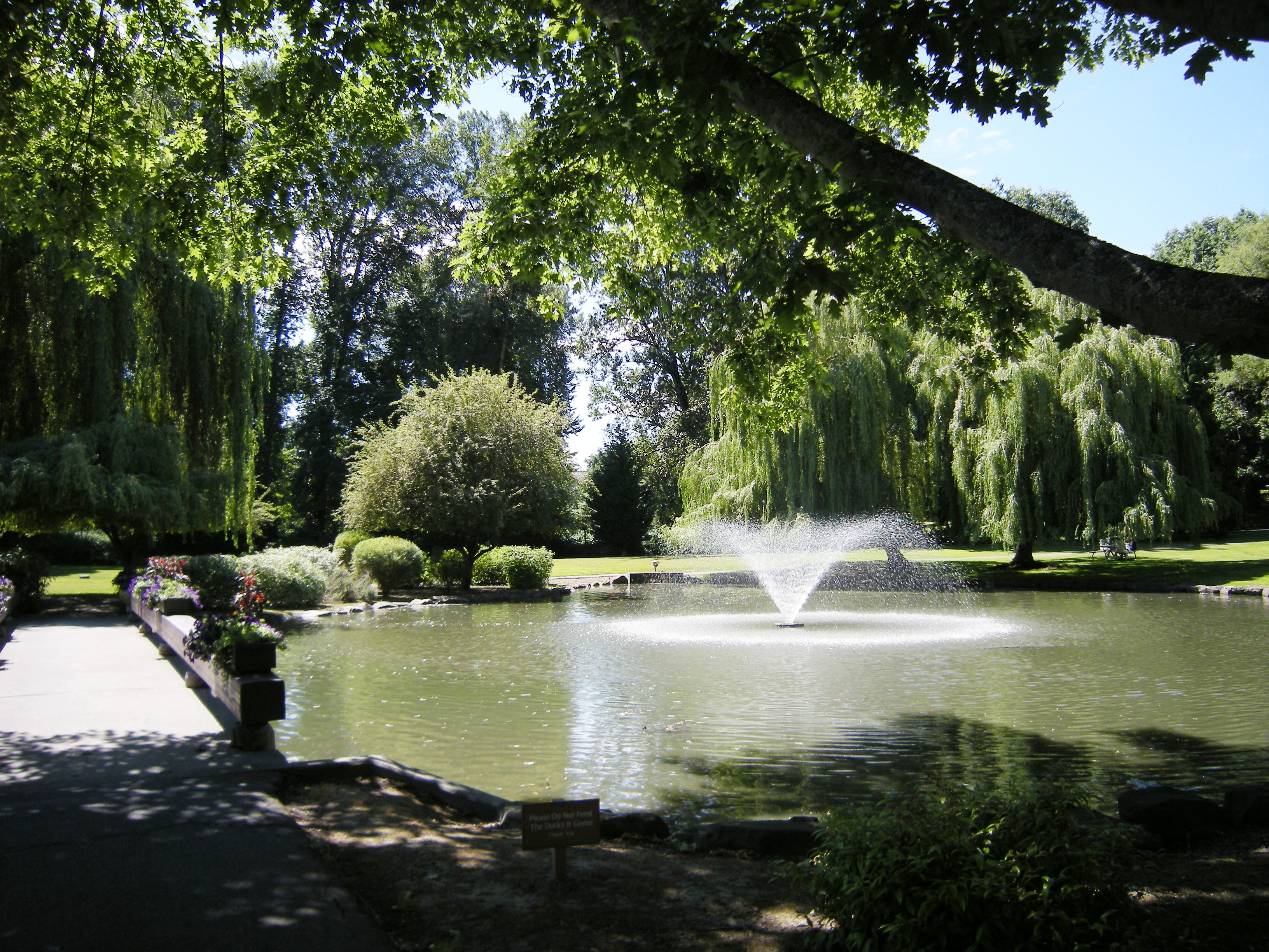 Battelle campus, Laurelhurst, Seattle, Washington. Battelle is an R&D company that manages seven large U.S. national laboratories. They no longer own this 18-acre campus in Seattle, although they retain some offices there. The campus is now officially the Talaris World Campus and Conference Center and is owned by 4000 Property LLC, a company affiliated with Bruce and Jolene McCaw.